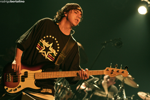 Banda Charlie Brown Jr. apresentando-se ao vivo no Galpão da Philips em Guarulhos, SP, no dia 19 de julho de 2008 (Foto por Rodrigo Bertolino).